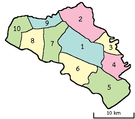 Subdistricts of At Samat